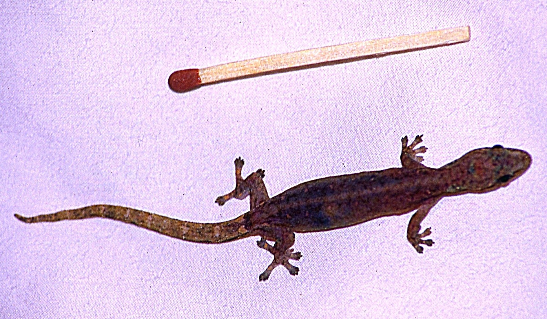 Night gekko (Hemiphyllodactylus typus), St Paul, Reunion Island